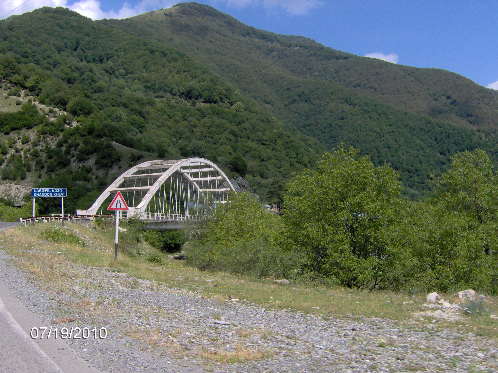 ხანდოს ხევი